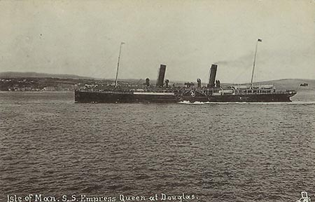 Empress Queen at Douglas.